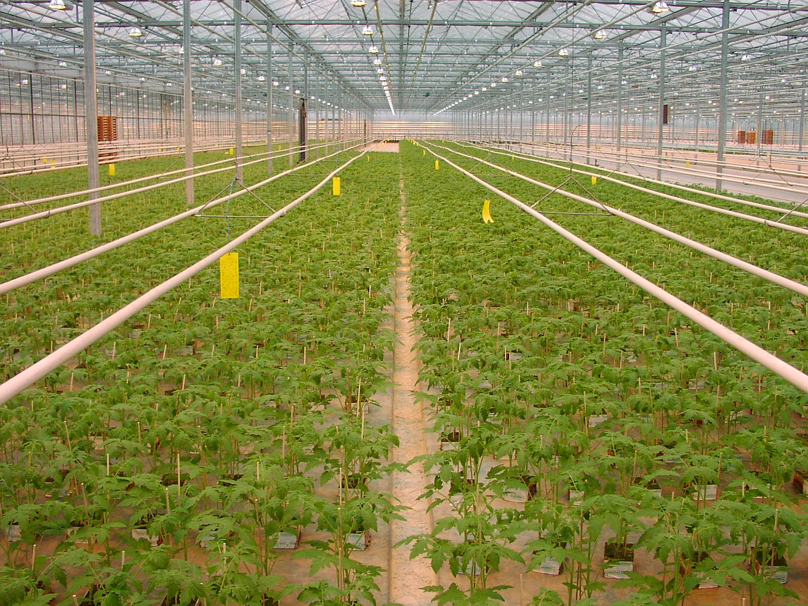 Tomatoe young plant breeding Netherlands